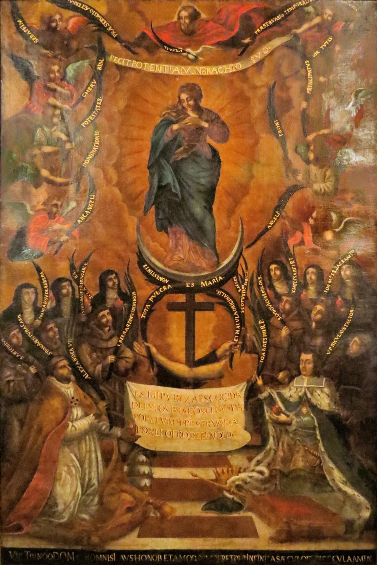 Allegory of the Acclamation of Our Lady of the Immaculate Conception as Patroness of Portugal, in the collections of the Museu de Arte do Rio, Brazil